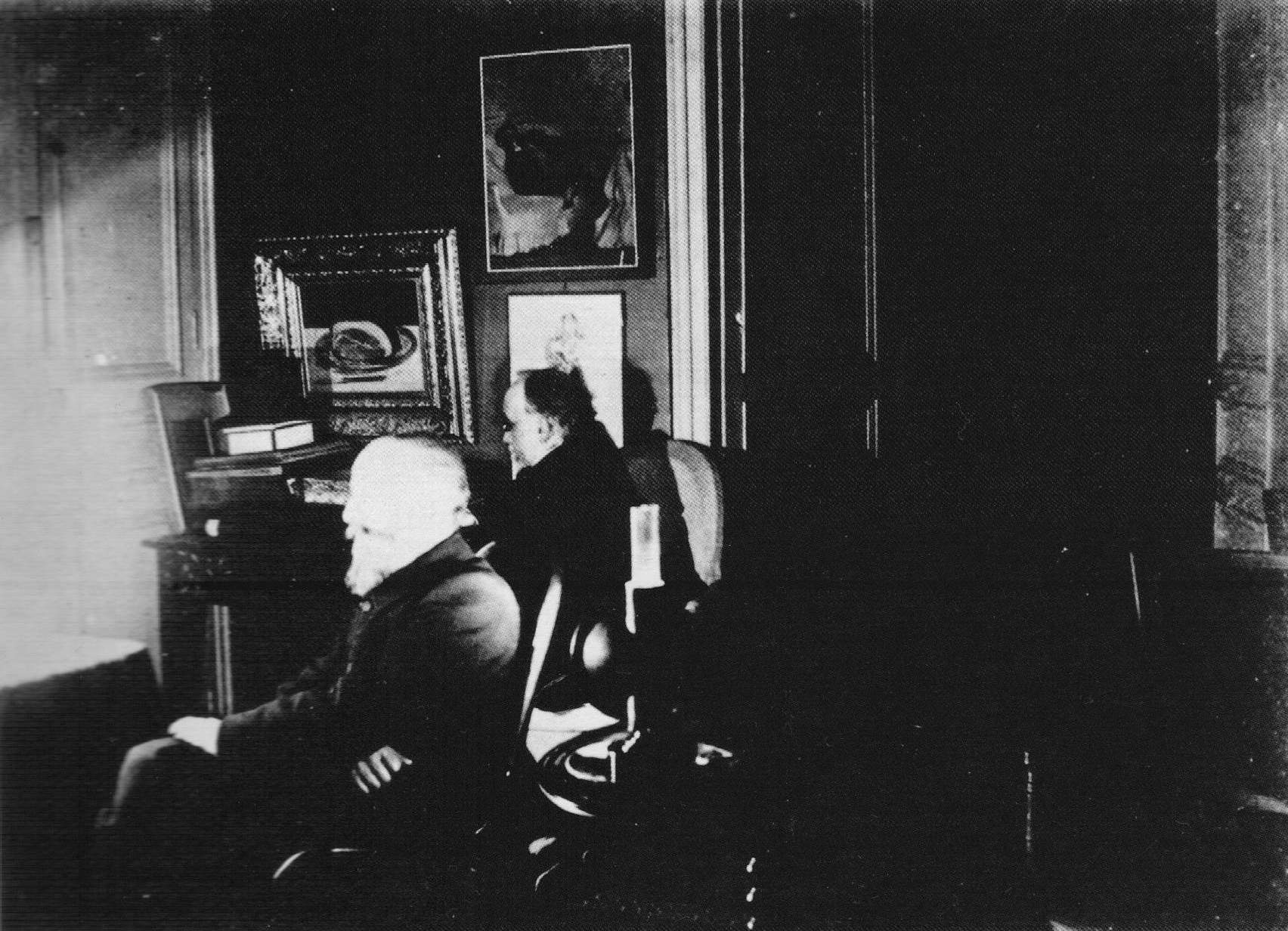 Edgar Degas (1834-1917) and Paul-Albert Bartholomé. The Room is probably in Degas apartment on the rue Ballu. On the wall are the paintings "Portrait of Édouard Manet and his wife" by Degas and "The Ham" by Manet and the lithograph "Polichinelle" by Manet.